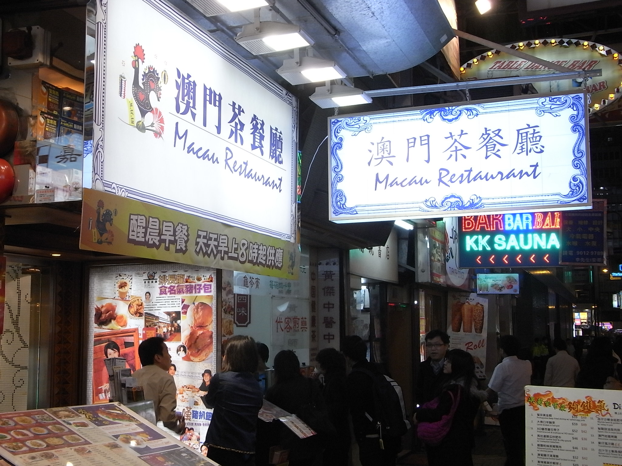 尖沙咀 樂道 澳門茶餐廳